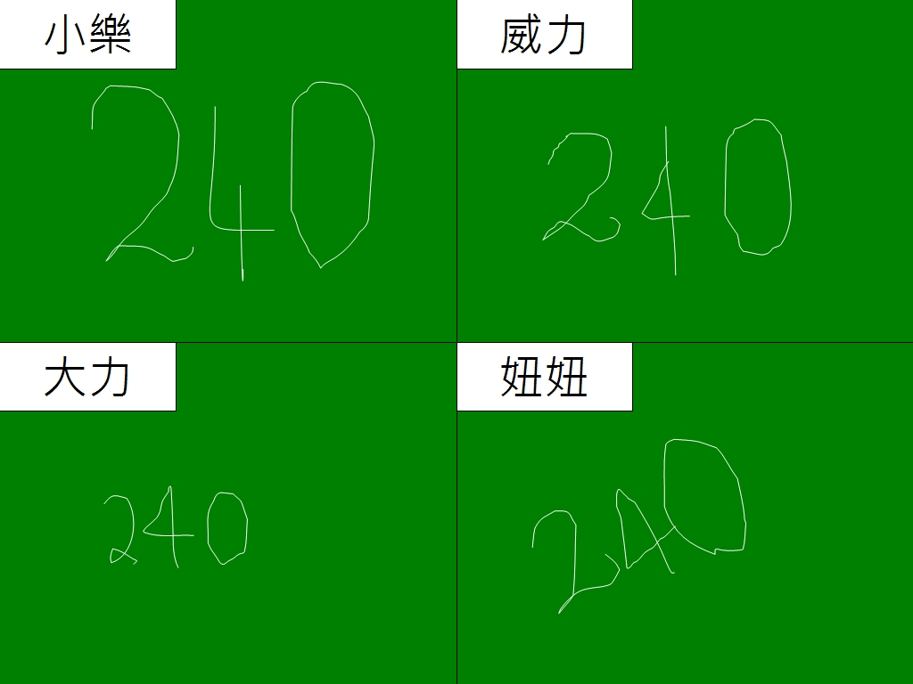 Screenshot simulation from the TV show Are You Smarter Than The Primary School Students? Taiwanese version.